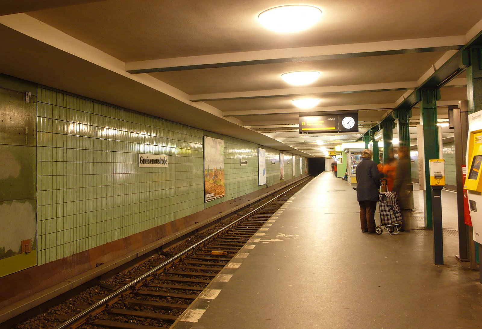 Subway Gneisenaustr